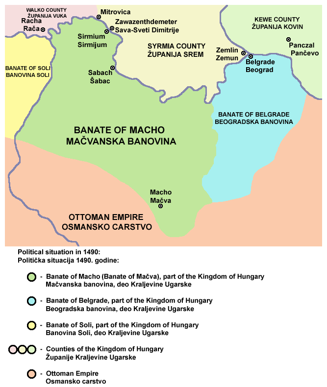 Banate of Macho (Banate of Mačva) and Banate of Belgrade in 1490.